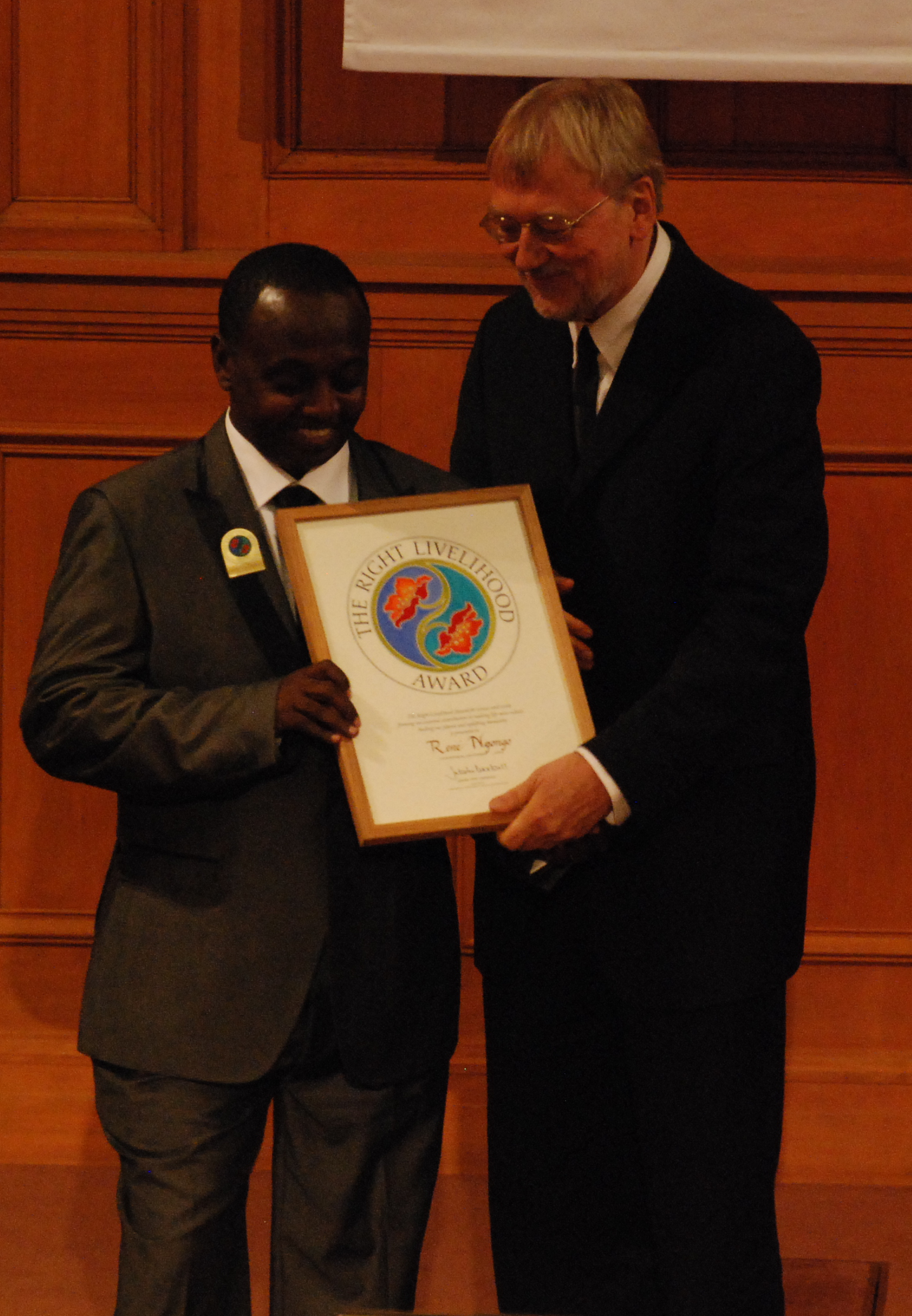 Award Ceremnony of the 30th Right Livelihood Award 2009: The prize is presented to René Ngongo (l) by Jakob von Uexküll (r).